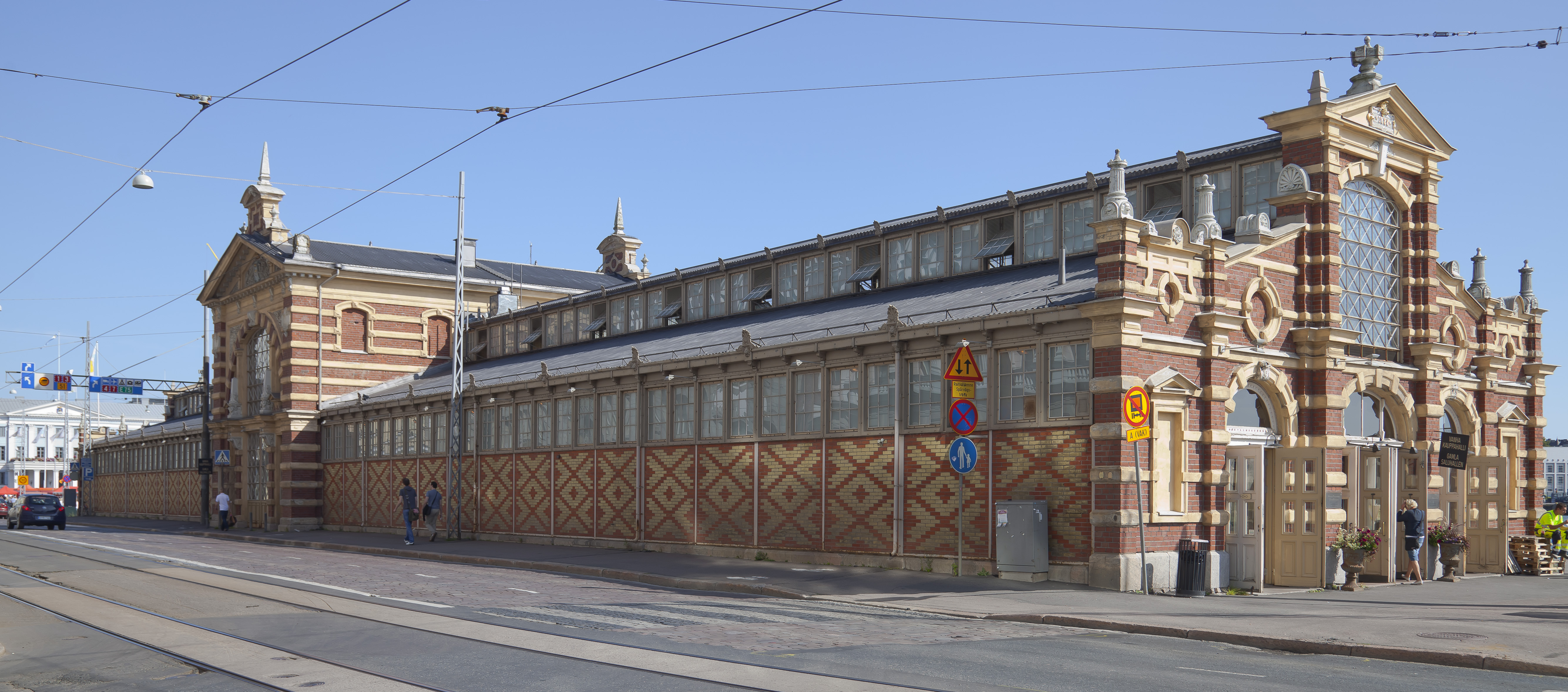 Helsinki Old Market Hall, Finland